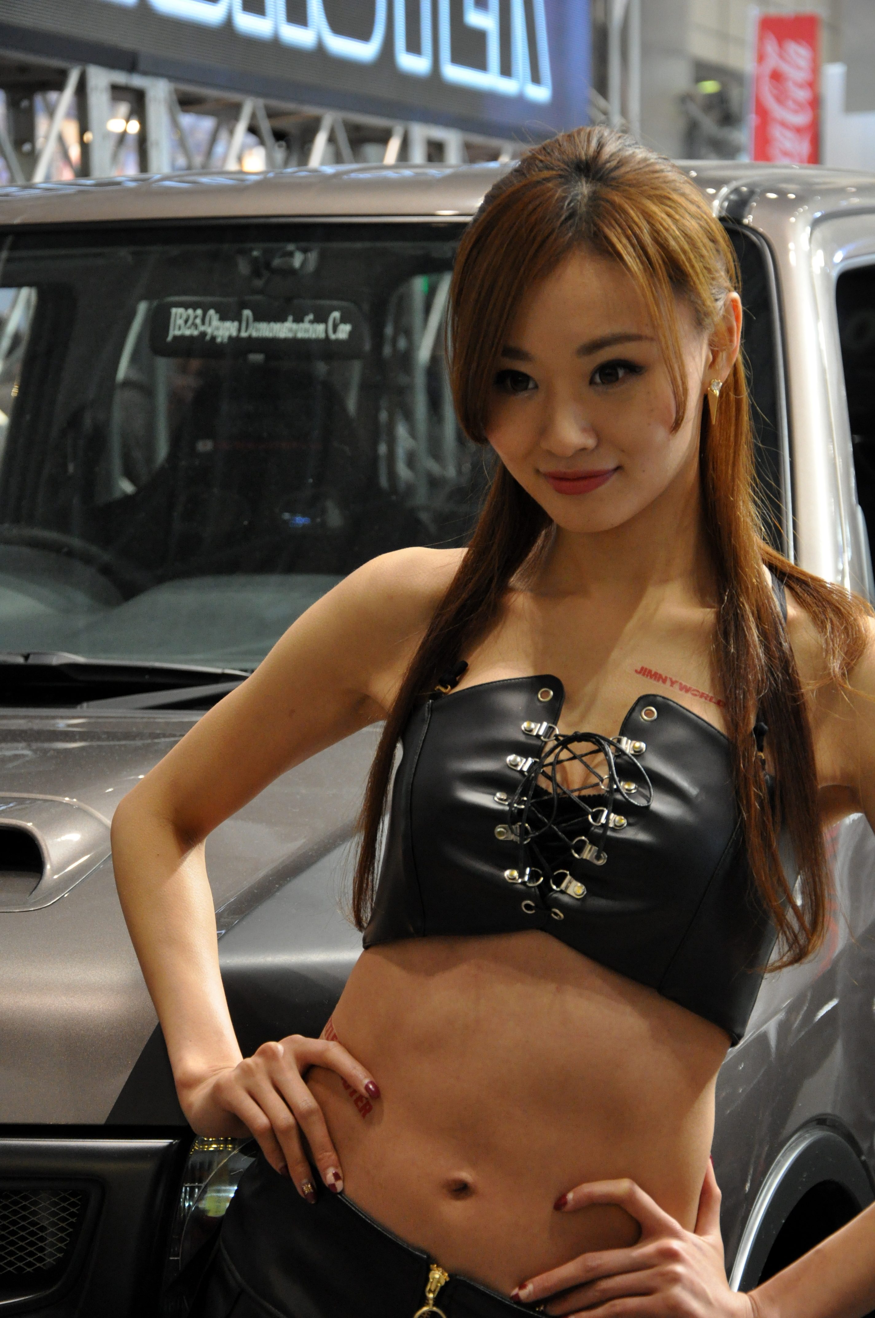 TOKYO AUTO SALON 2014 with NAPAC_054